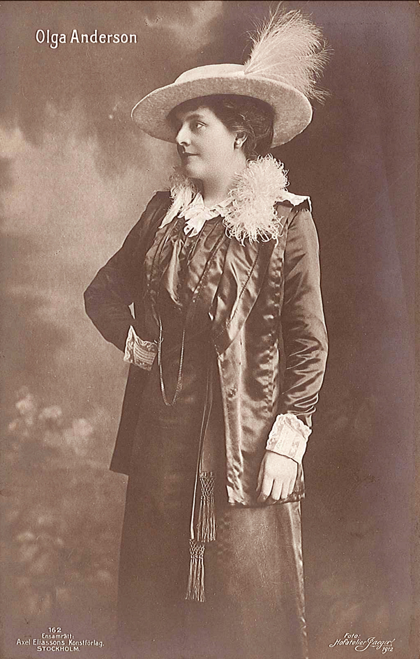 Olga Andersson (1876-1943), Swedish actress.